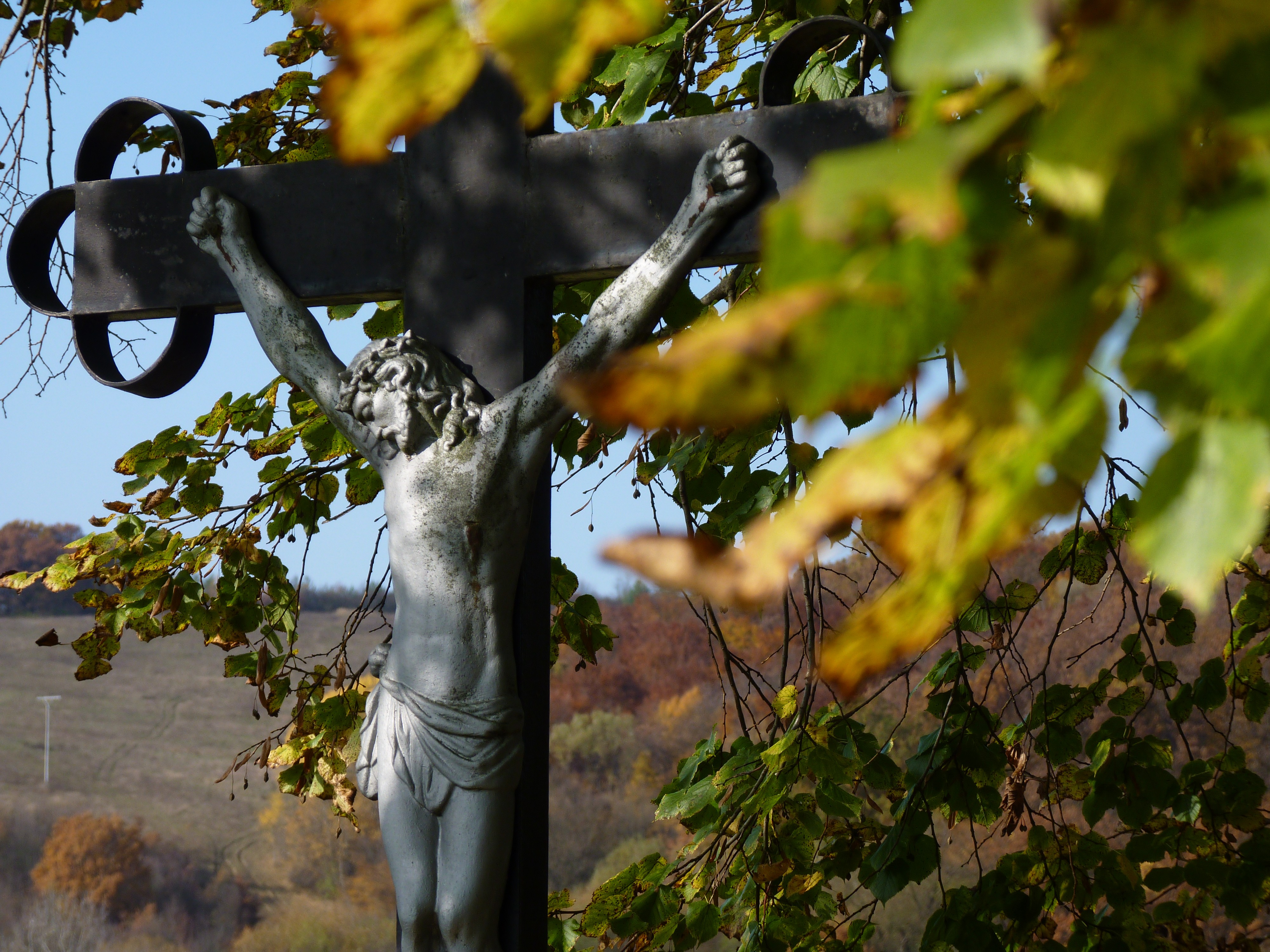 Cross from the upper end of the village Vyšný Hrušov.